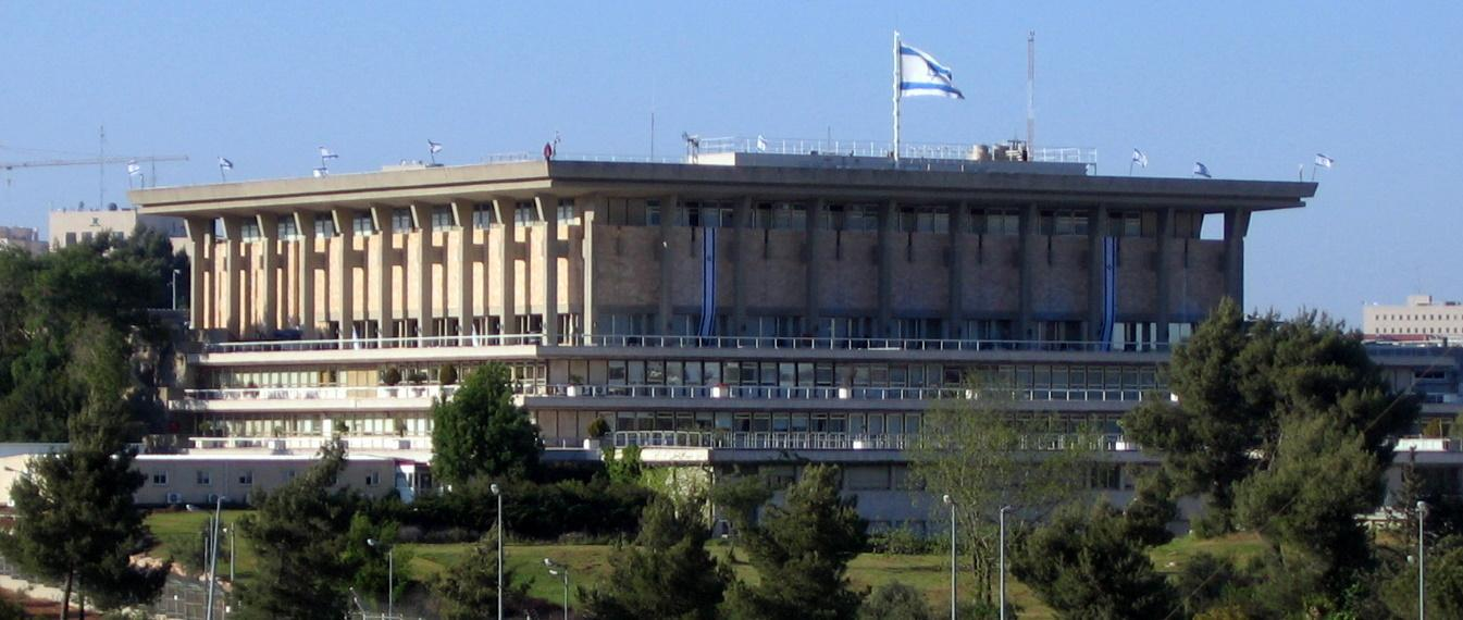 The Knesset building, Jerusalem, Israel, on Independence Day. Taken from the south, from The Israel Museum.